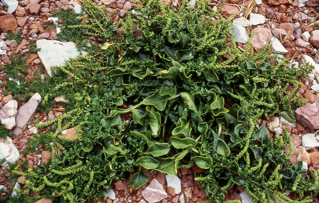 Sea-beet (Beta vulgaris subsp. maritima), rocky shore of Helgoland island